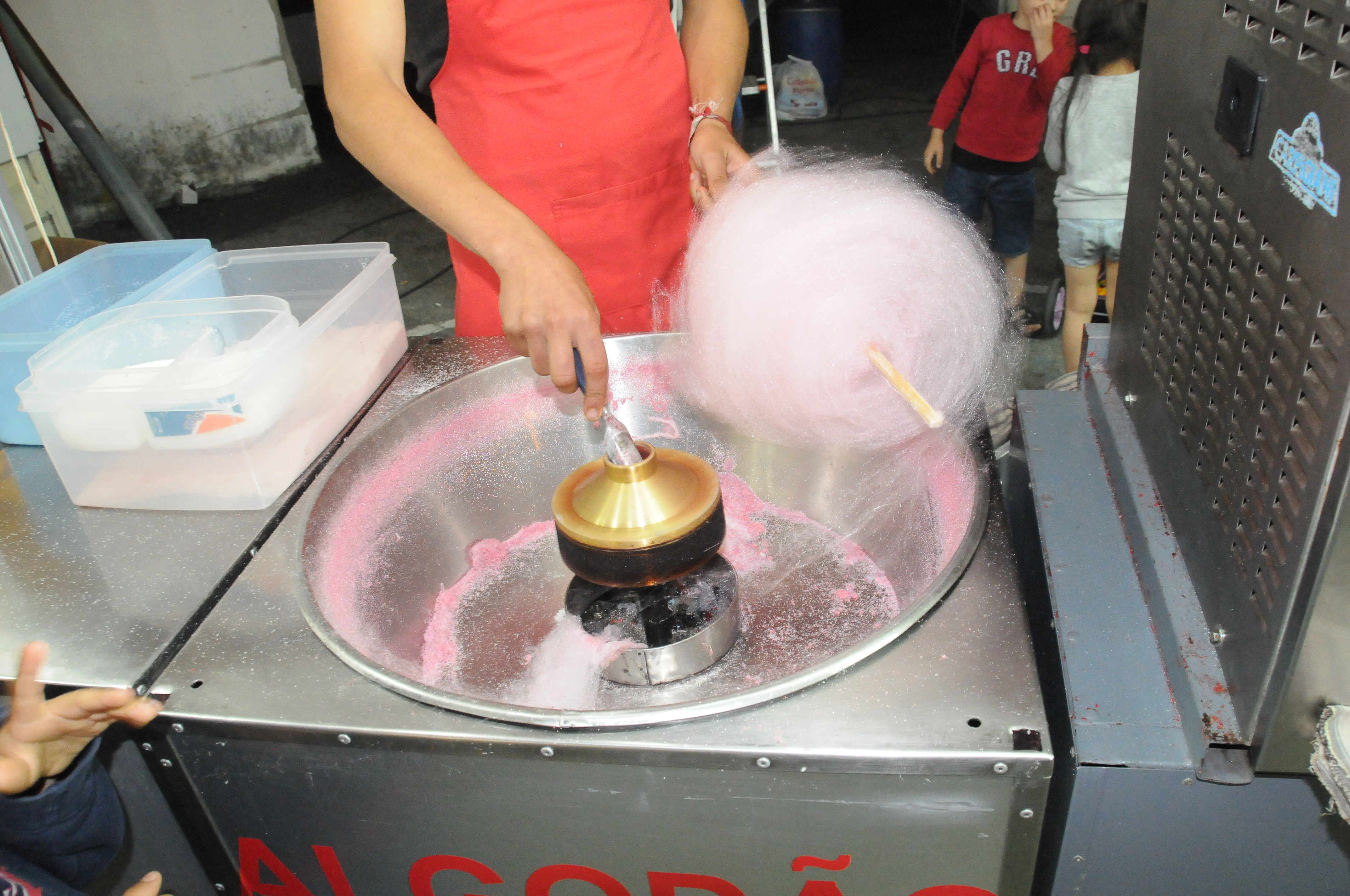 Cotton candy in Braga, Portugal.